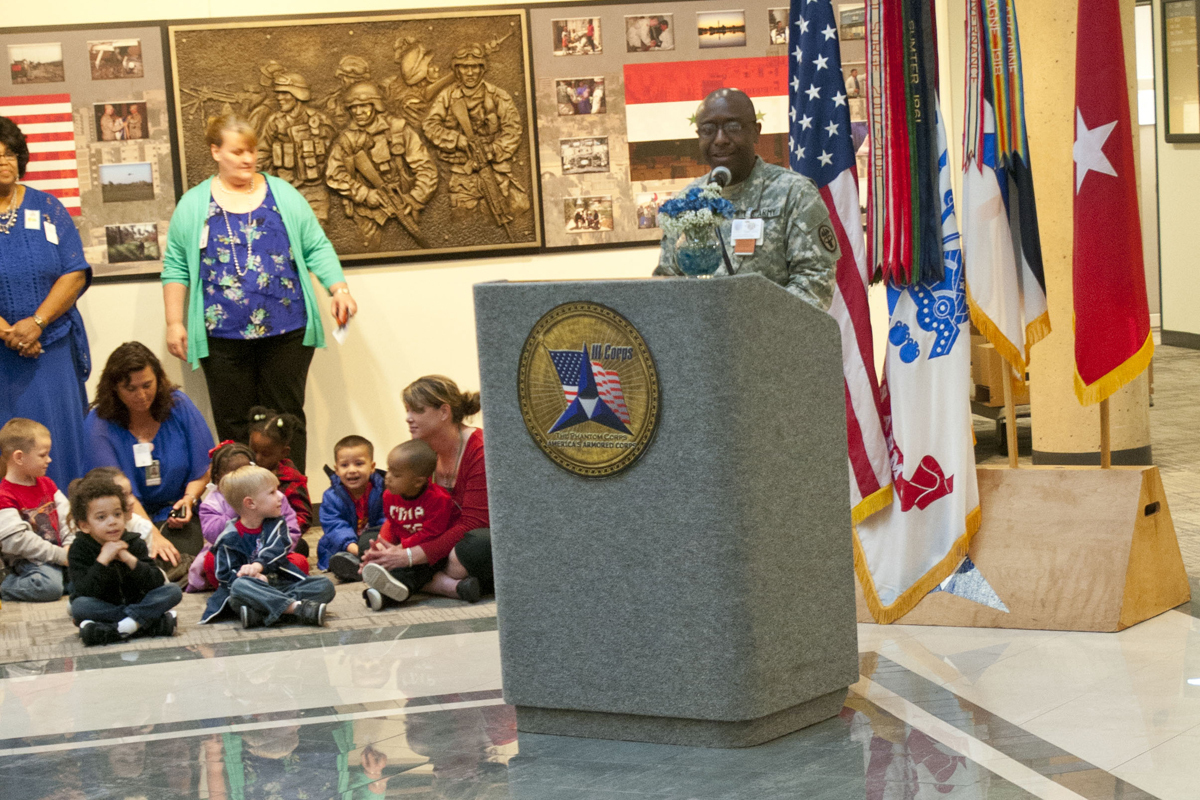 U.S. Army Lt. Col. Keith Washington, right, the department chief of social work for Carl R. Darnell Army Medical Center speaks to Soldiers, civilians and family members during the 2013 Child Abuse Prevention Month Proclamation ceremony at III Corps Headquarters in Fort Hood, Texas, April 4, 2013.